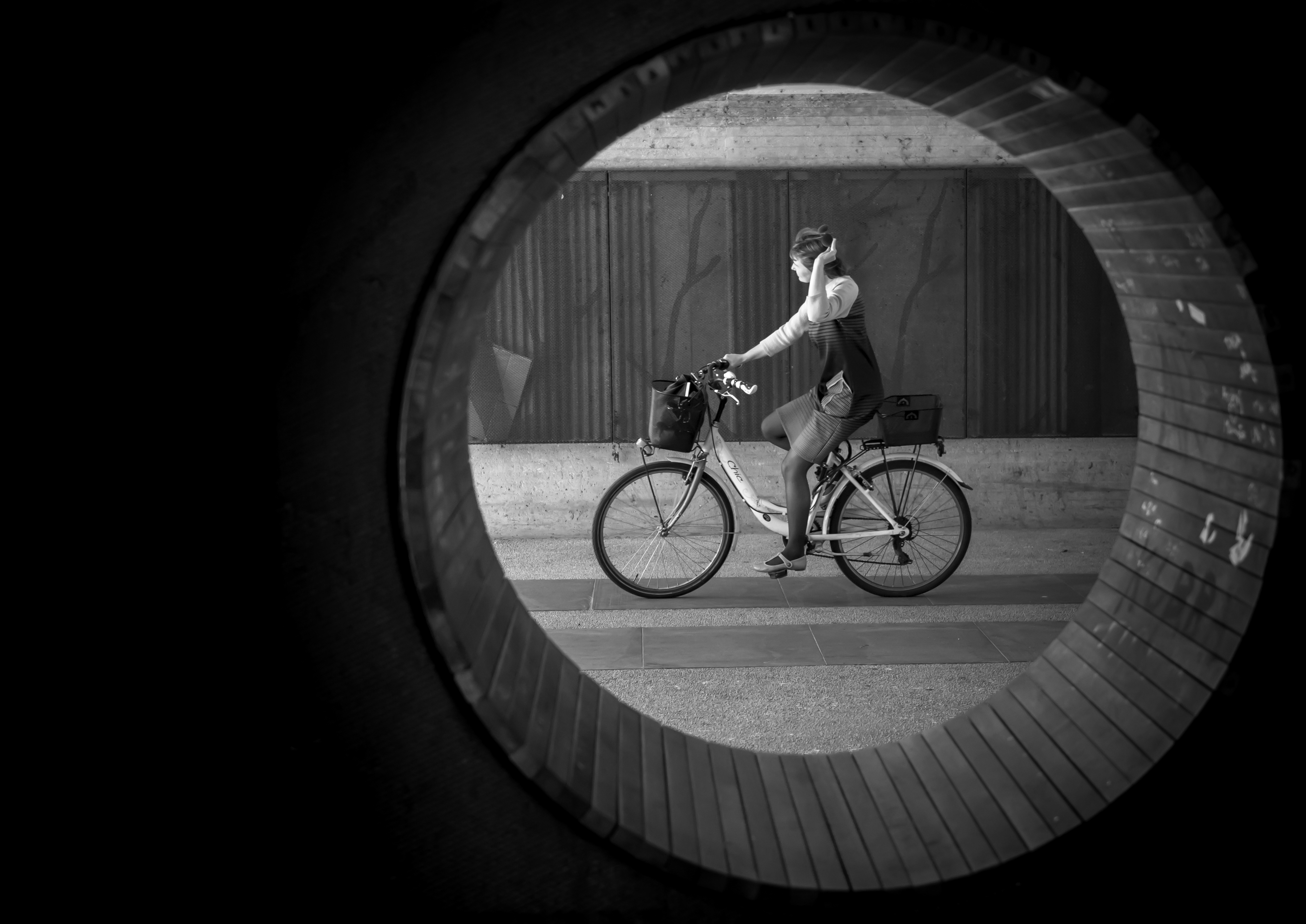 Bicycle commuter in Tivoli underpass, Ljubljana, Slovenia.